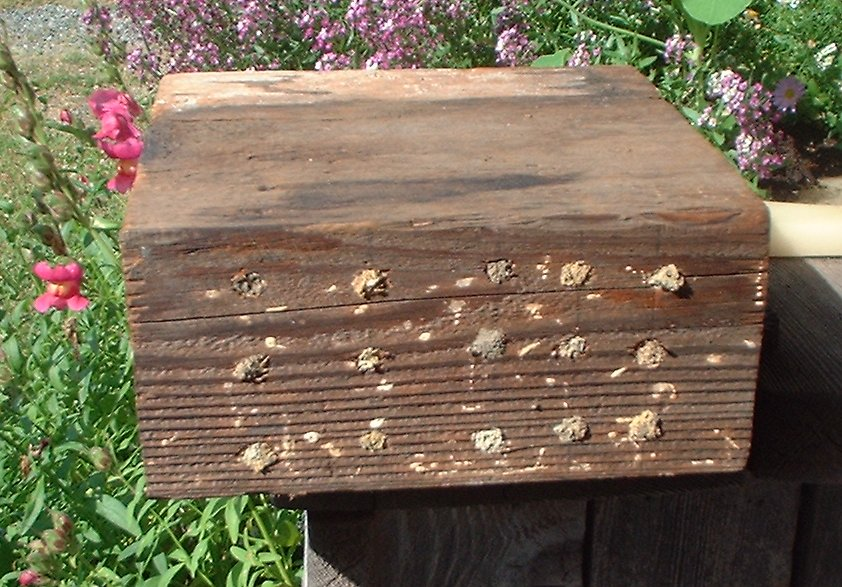 Homemade Mason bee nest block filled